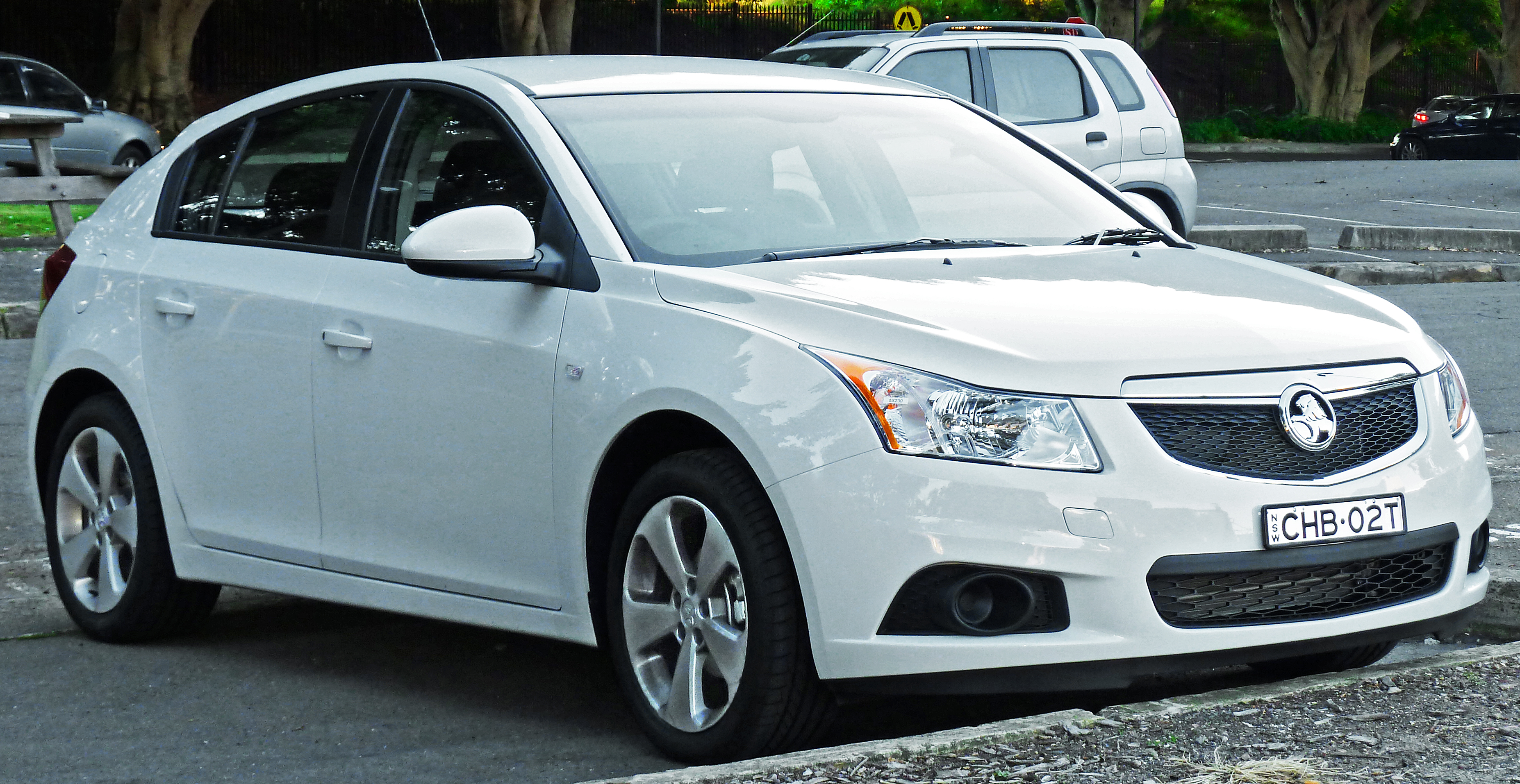 2012 Holden Cruze (JH II) Equipe hatchback. Photographed in Camperdown, New South Wales, Australia.